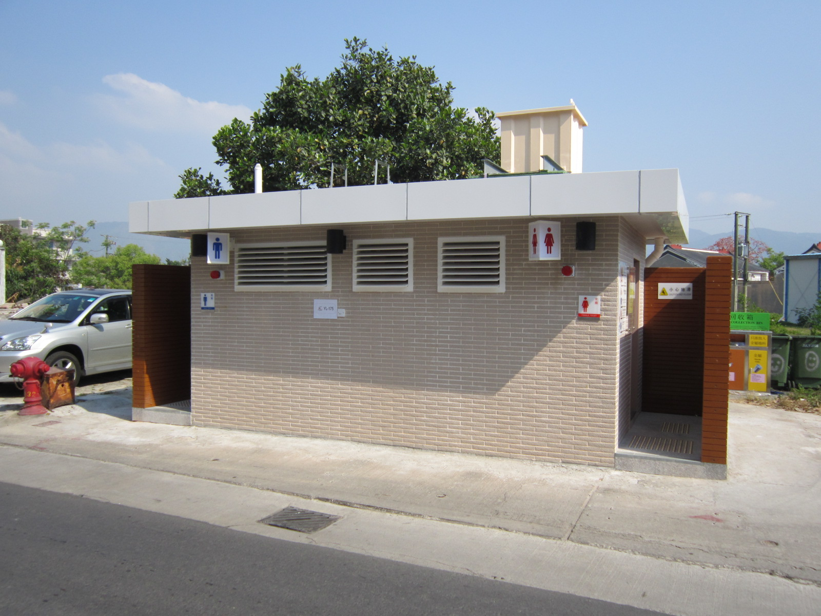 An aqua privy near Shui Tau Tsuen after refurbishment 中文（香港）: 翻新後的水頭村旱廁